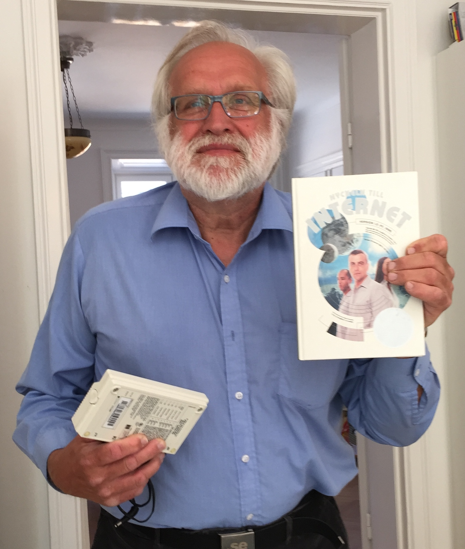 Swedish internet pioneer Per-Olof "POJ" Josefsson interviewed by Internetmuseum 2015.